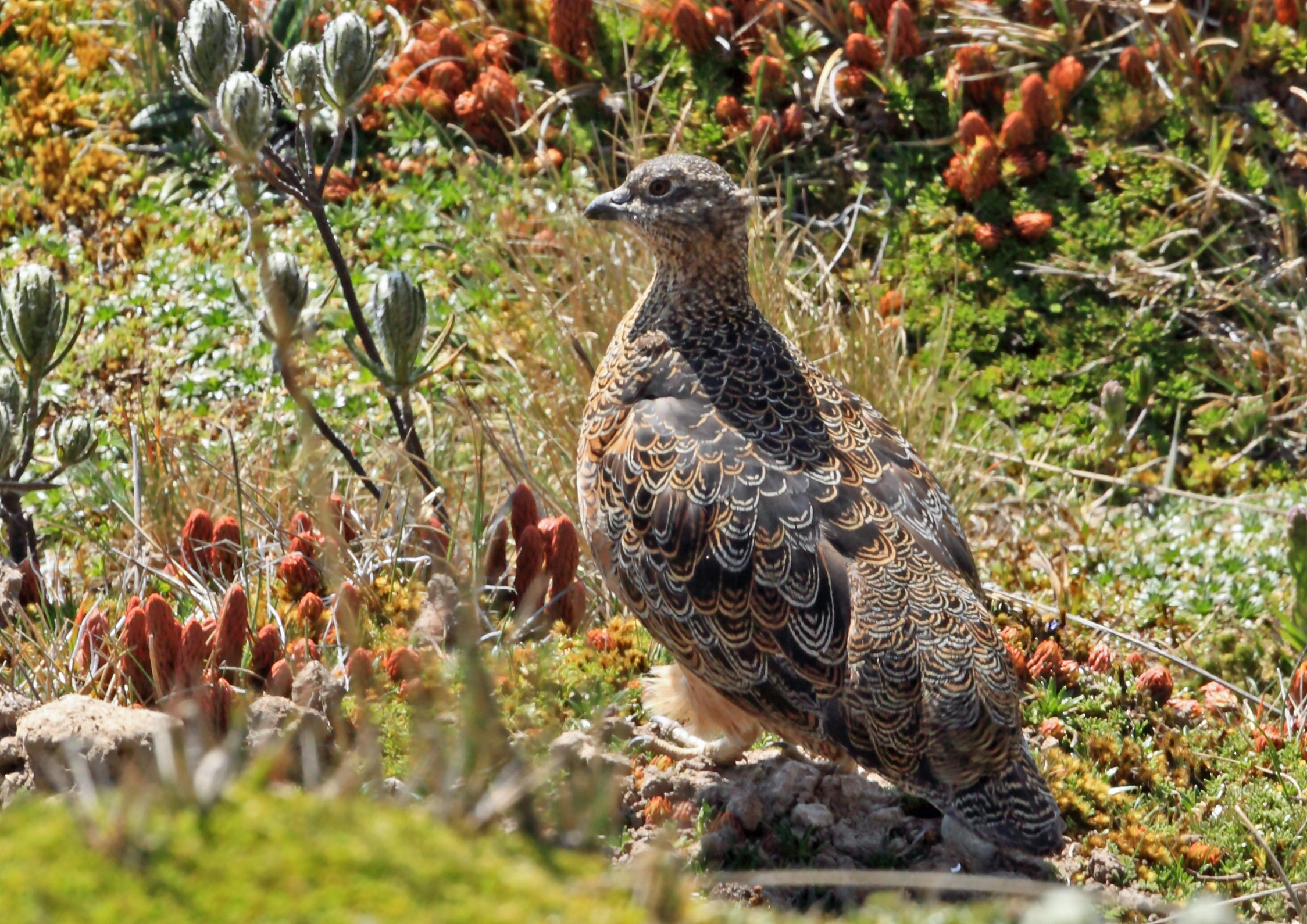 Rufous-bellied Seedsnipe, Guango, Ecuador